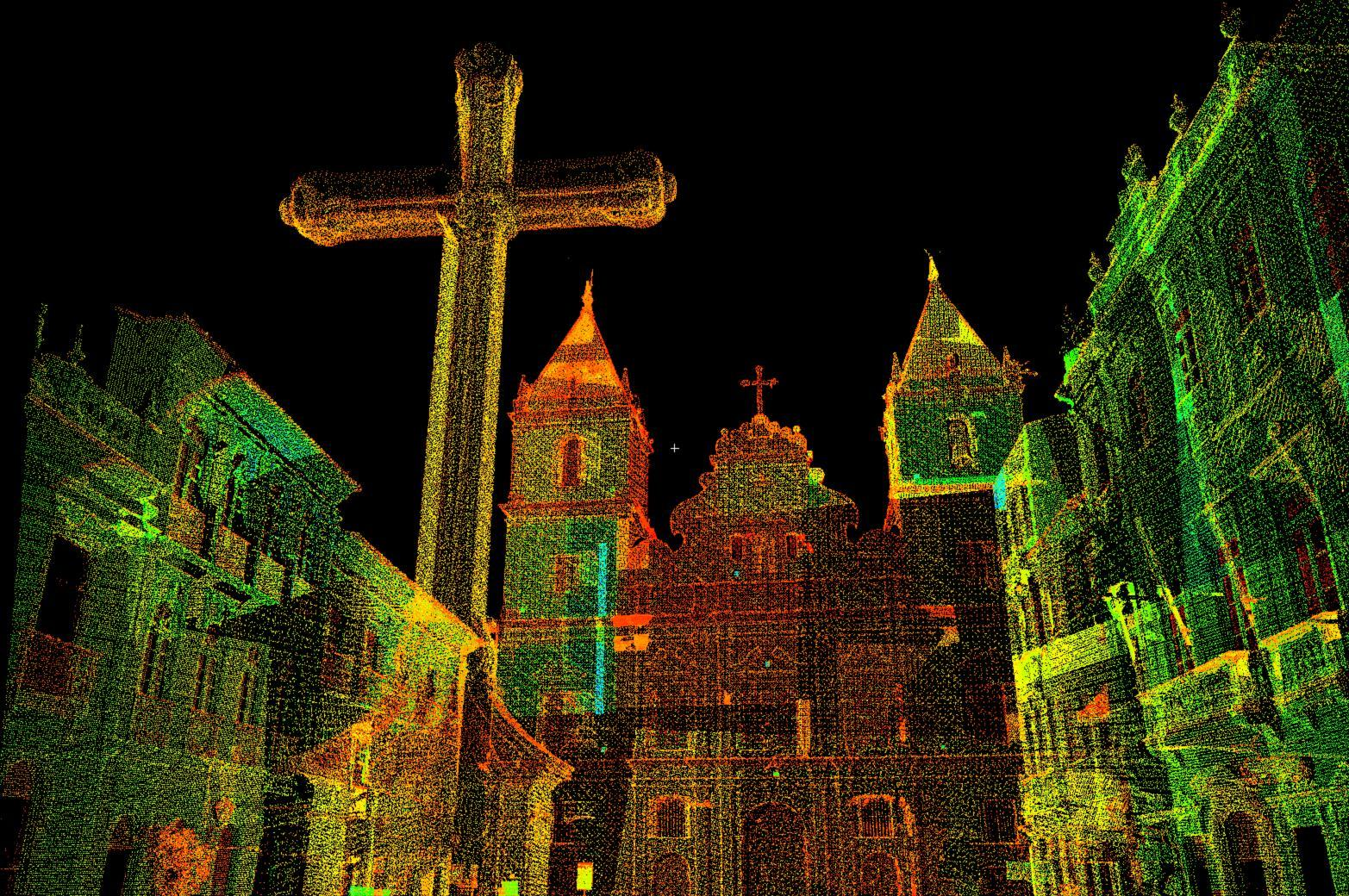 This large stone cross sits in the center of the Praca Anchieta Plaza. It is dedicated to Sao Francisco de Xavier, the patron saint of Salvador. The Praca Anchieta is the cobblestone plaza in the Pelourhino that connects the Igreja de Sao Francisco with the main court, Terreiro de Jesus. The baroque church and stone cross were built in the early 18th century, using the economic resources of the newly-wealthy sugar barons and the sweat of their slaves.